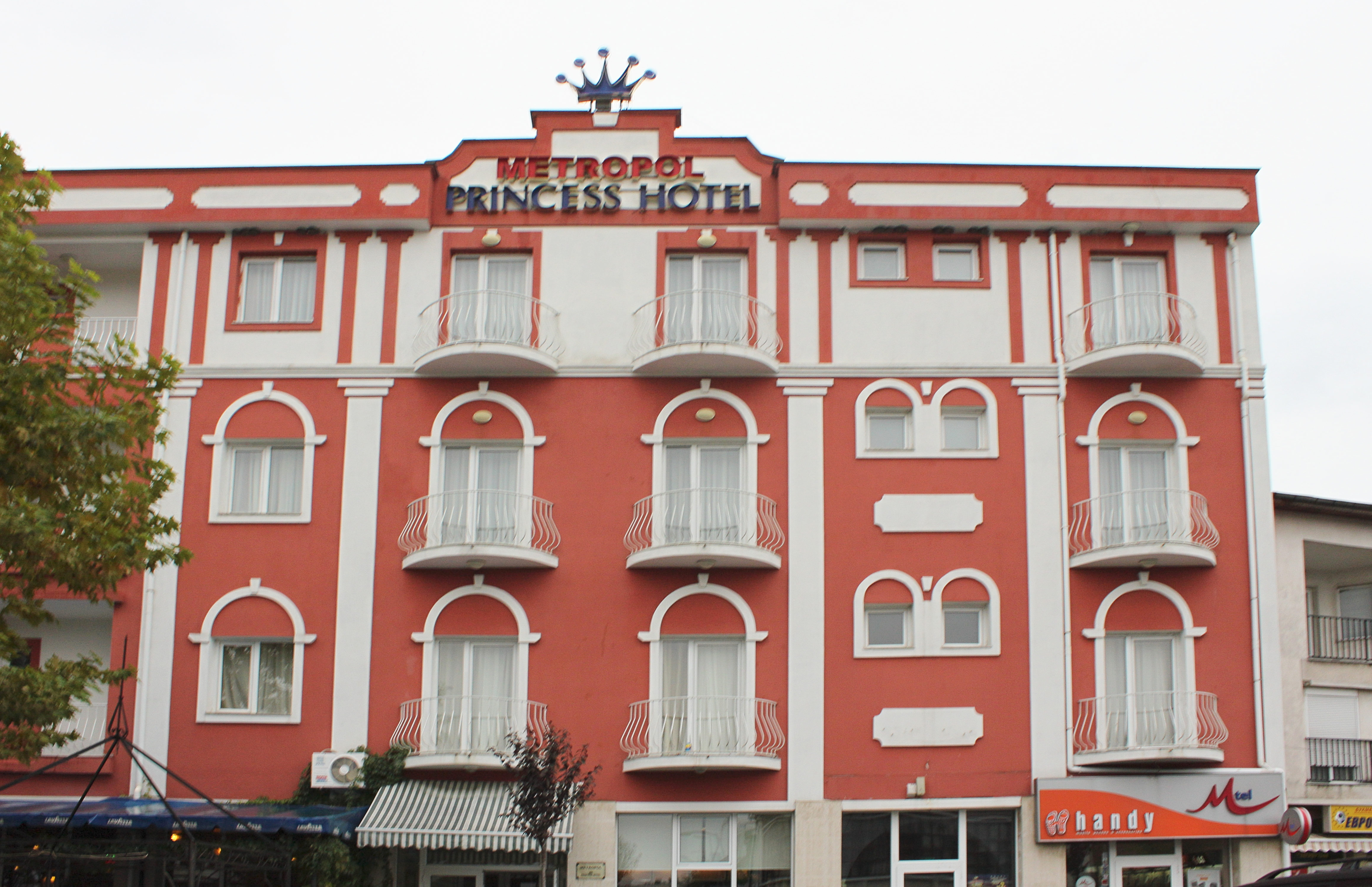 Swilengrad